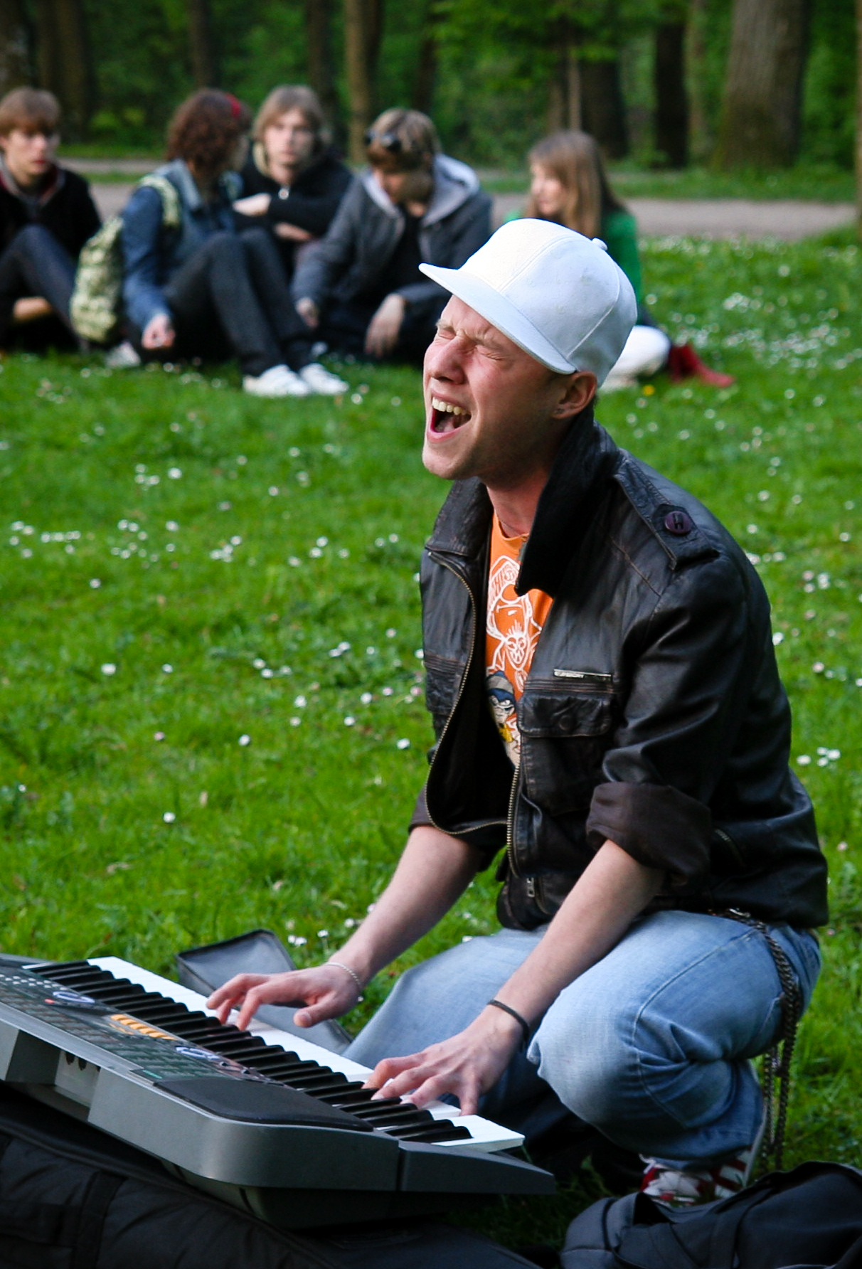 Dima Shavrov / Sasha Son performing in Vilnius on an annual Street Music Day